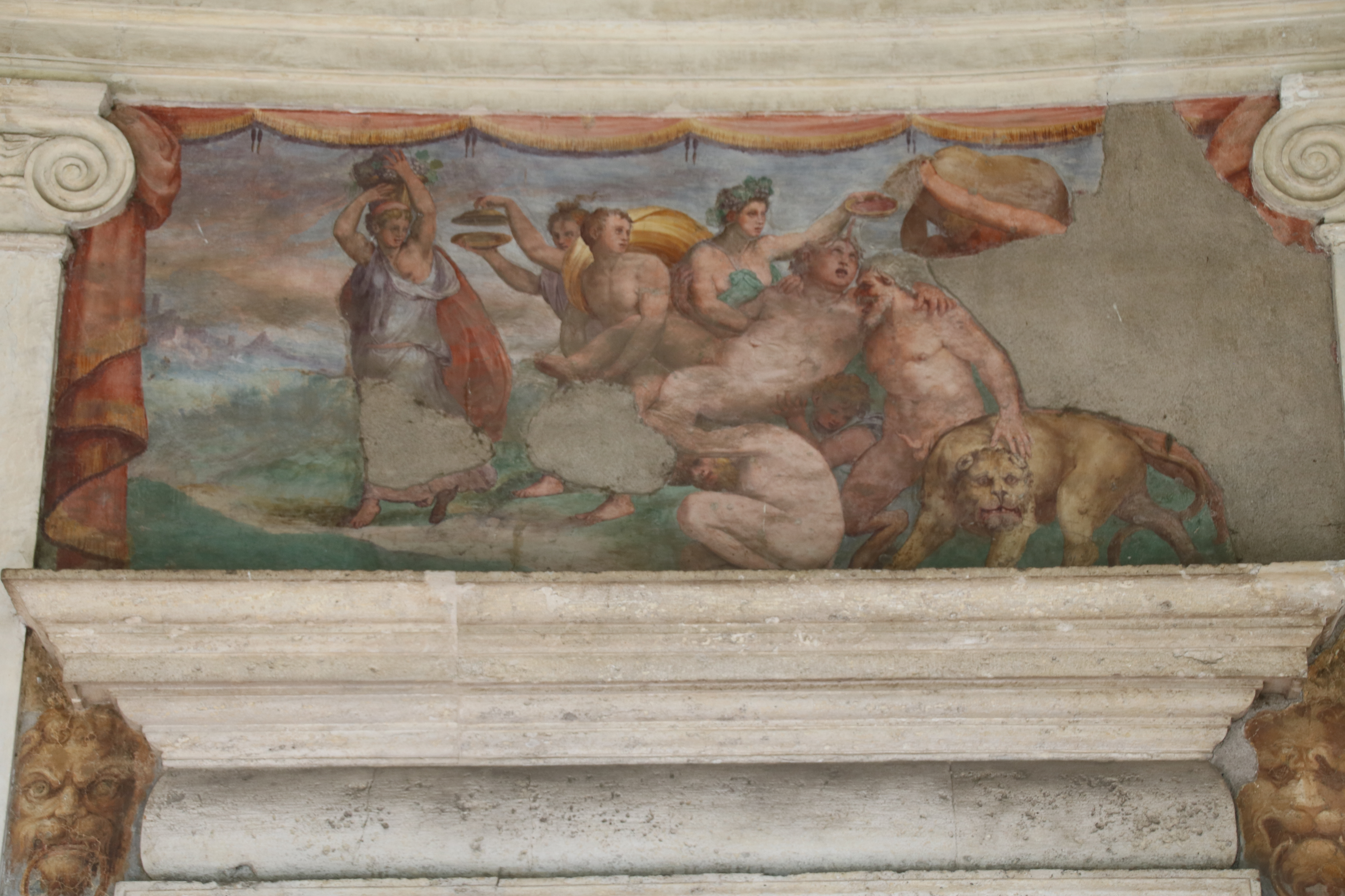 This is a photo of a monument which is part of cultural heritage of Italy.